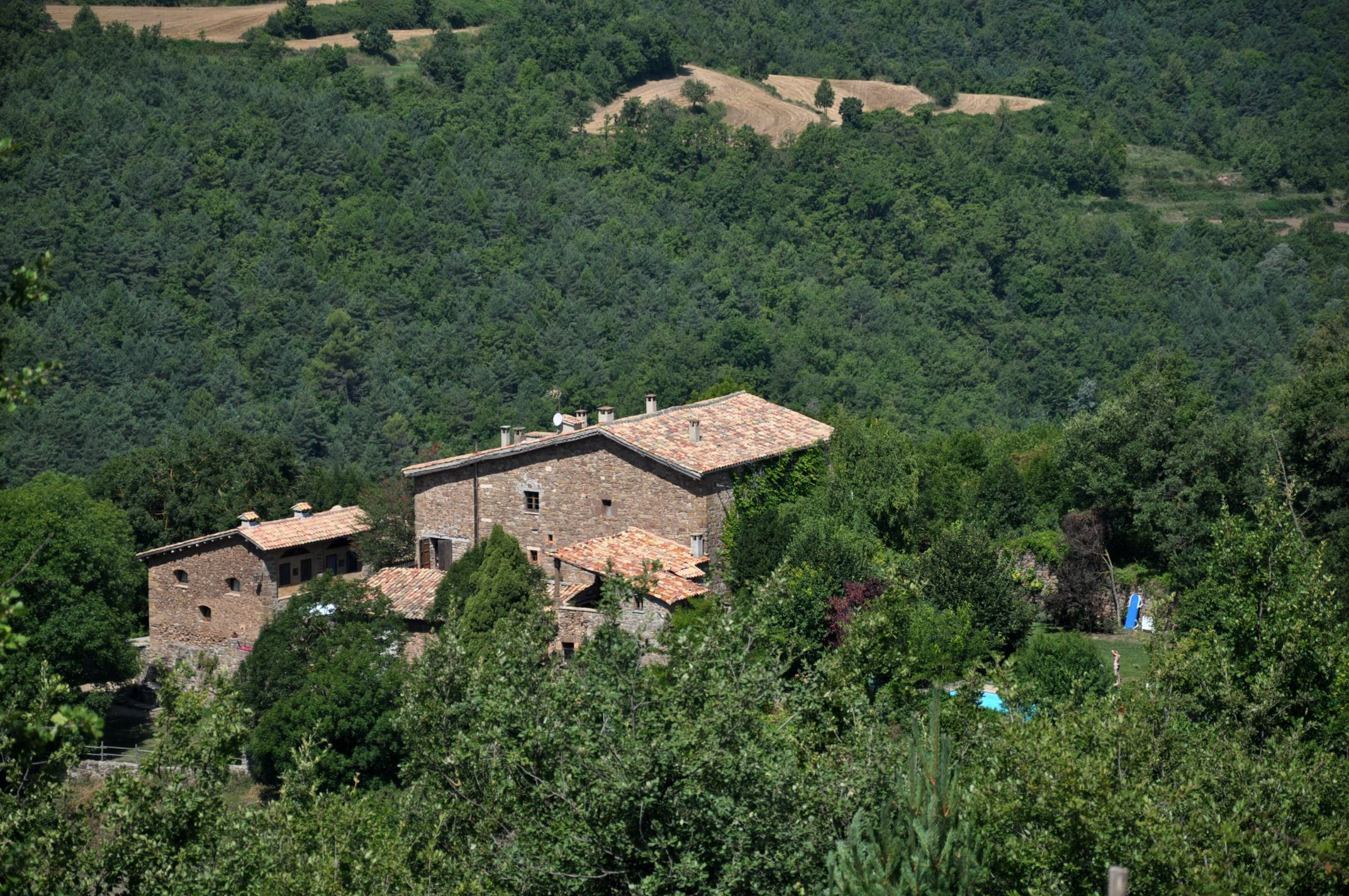 Mas Serra-rica, a former farm in the municipality of Muntanyola (district/comarca Osona, Catalonia, Spain), now used for tourism. Altitude: 810 m. Location: 41°52'21.09" N, 2°10'41.52" E.